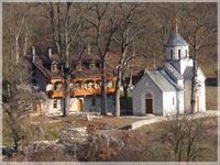 Šudikova